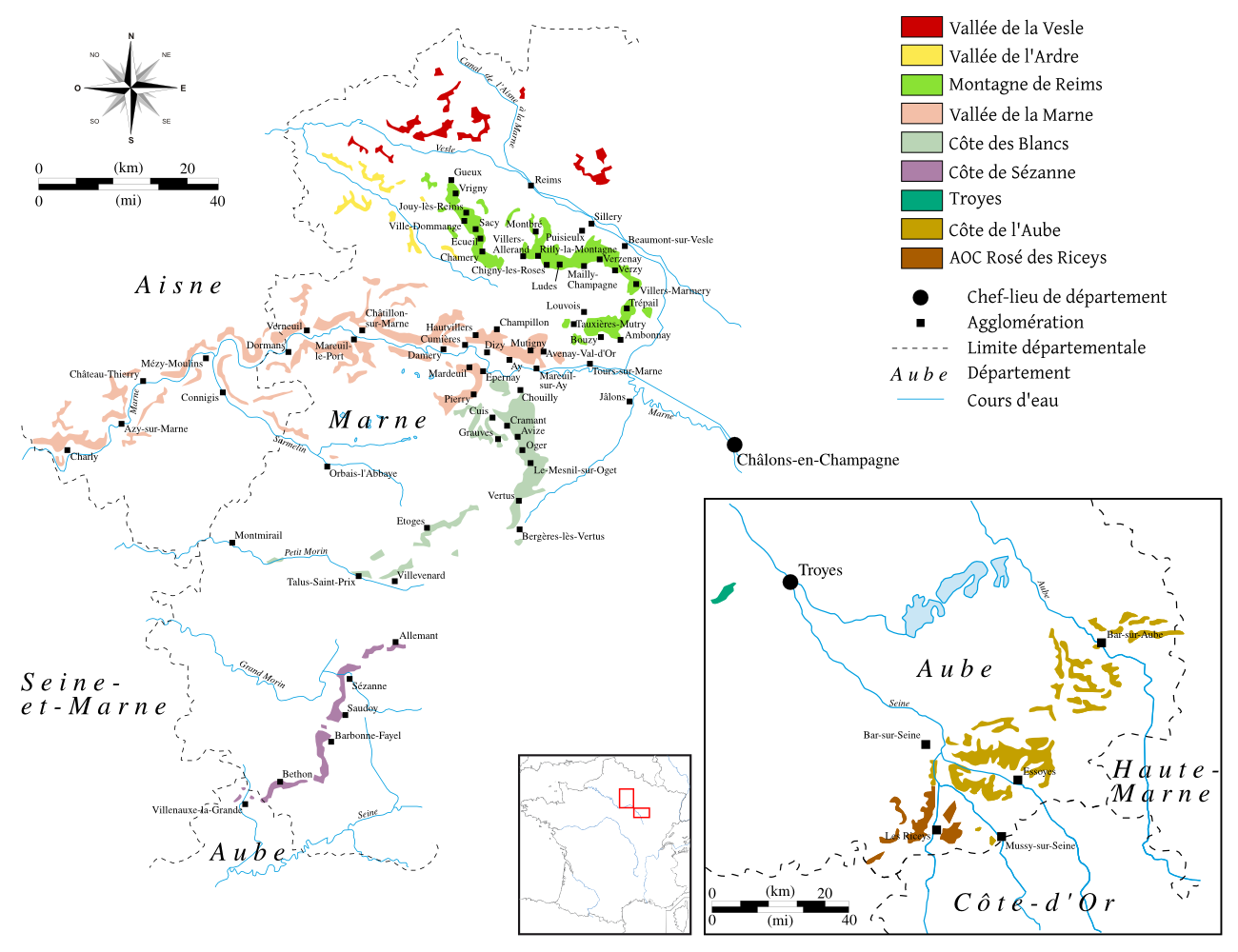 Wine-growing areas and wine villages of the Champagne region